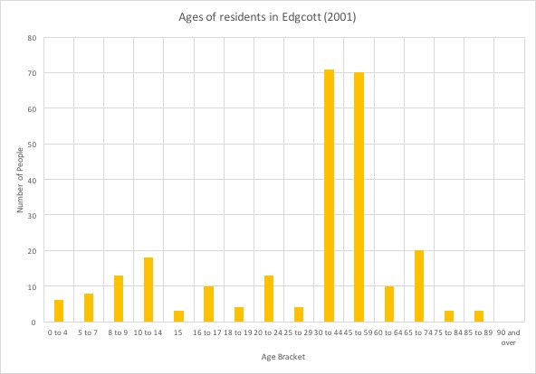 Shows the ages of people residing in Edgcott as of 2001